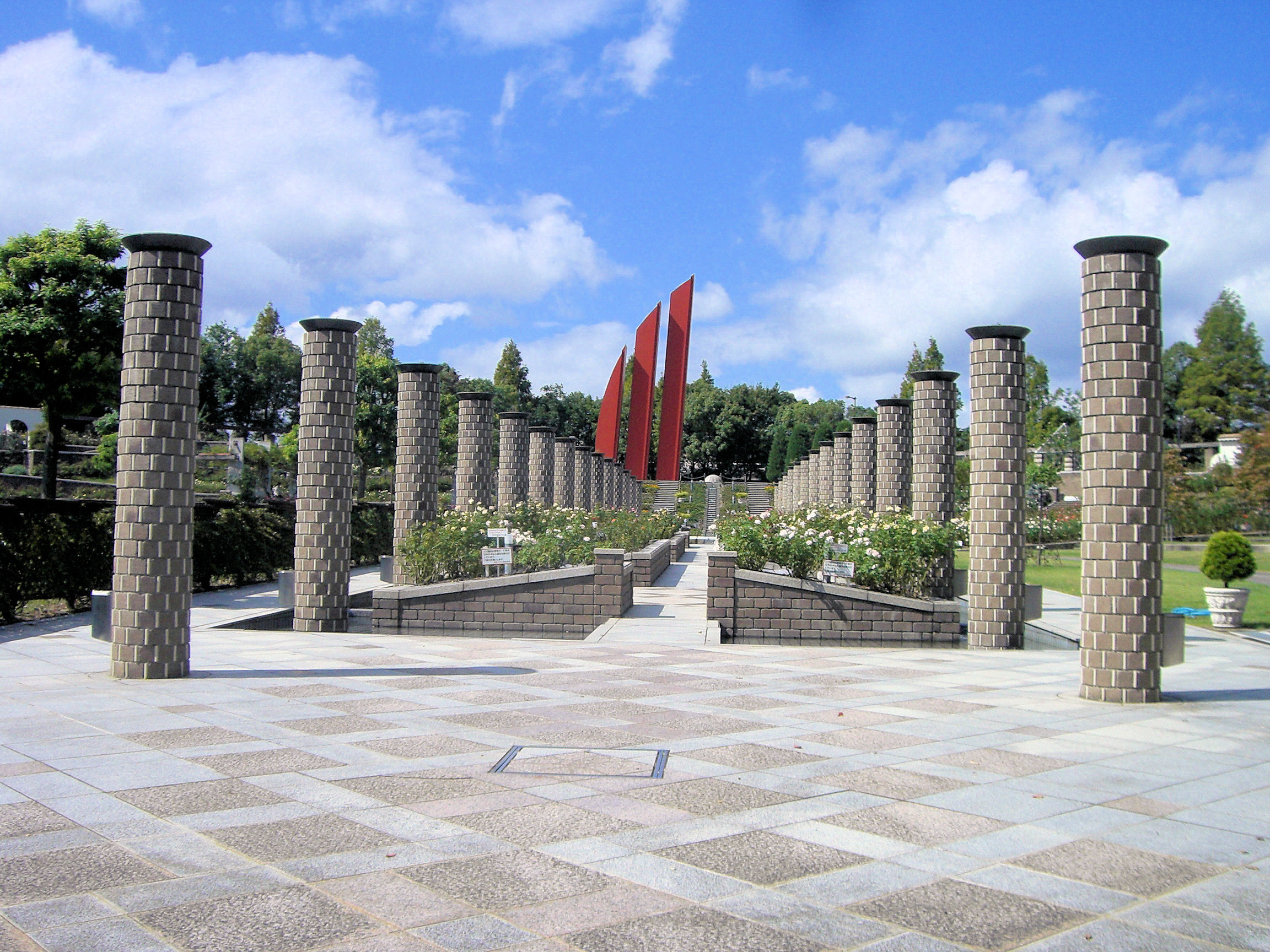 The main road of Aramaki rose park, Itamik, Japan